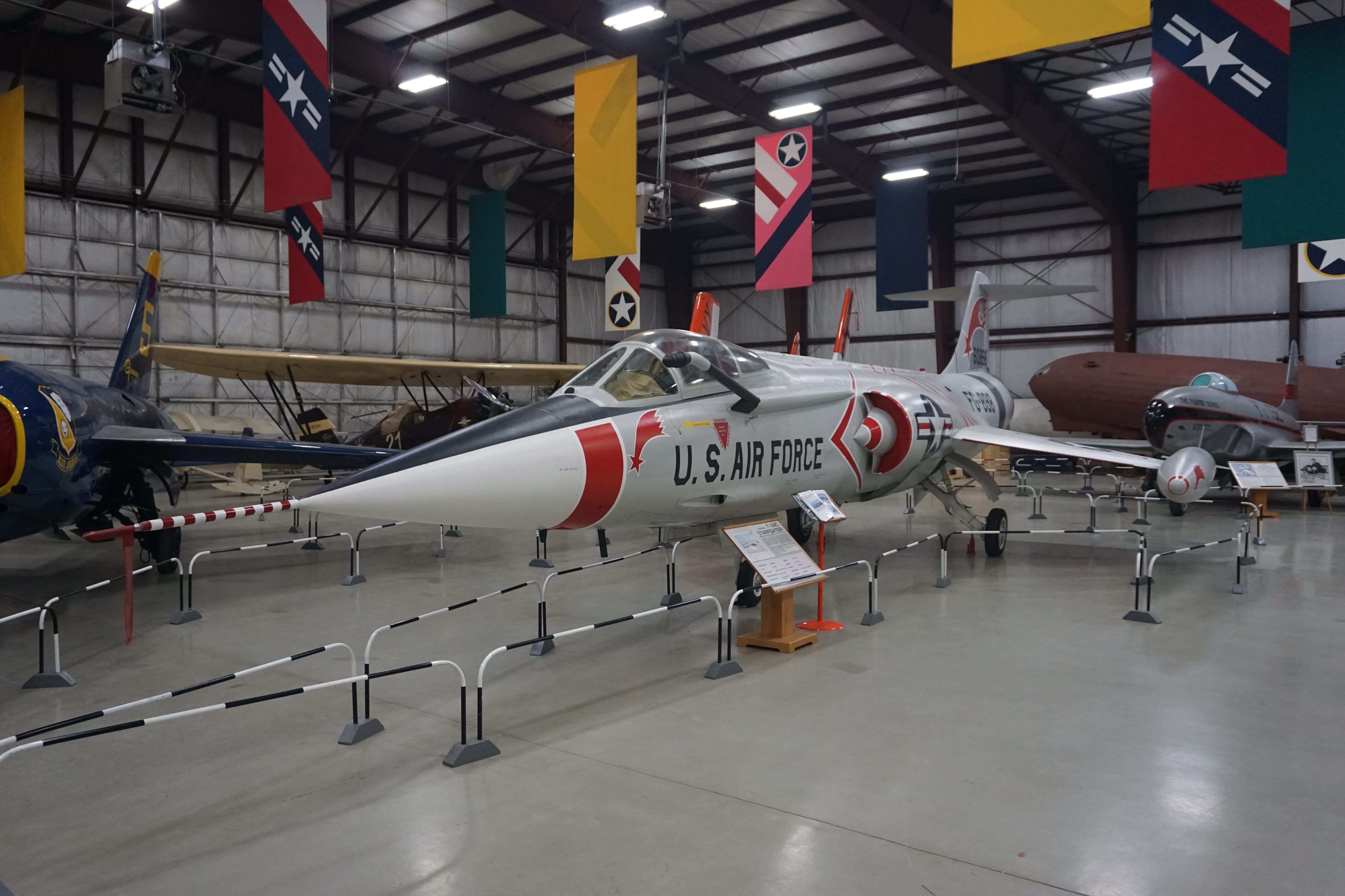 A Lockheed F-104C Starfighter on display at the Air Zoo at Kalamazoo/Battle Creek International Airport in Portage, Michigan (United States).